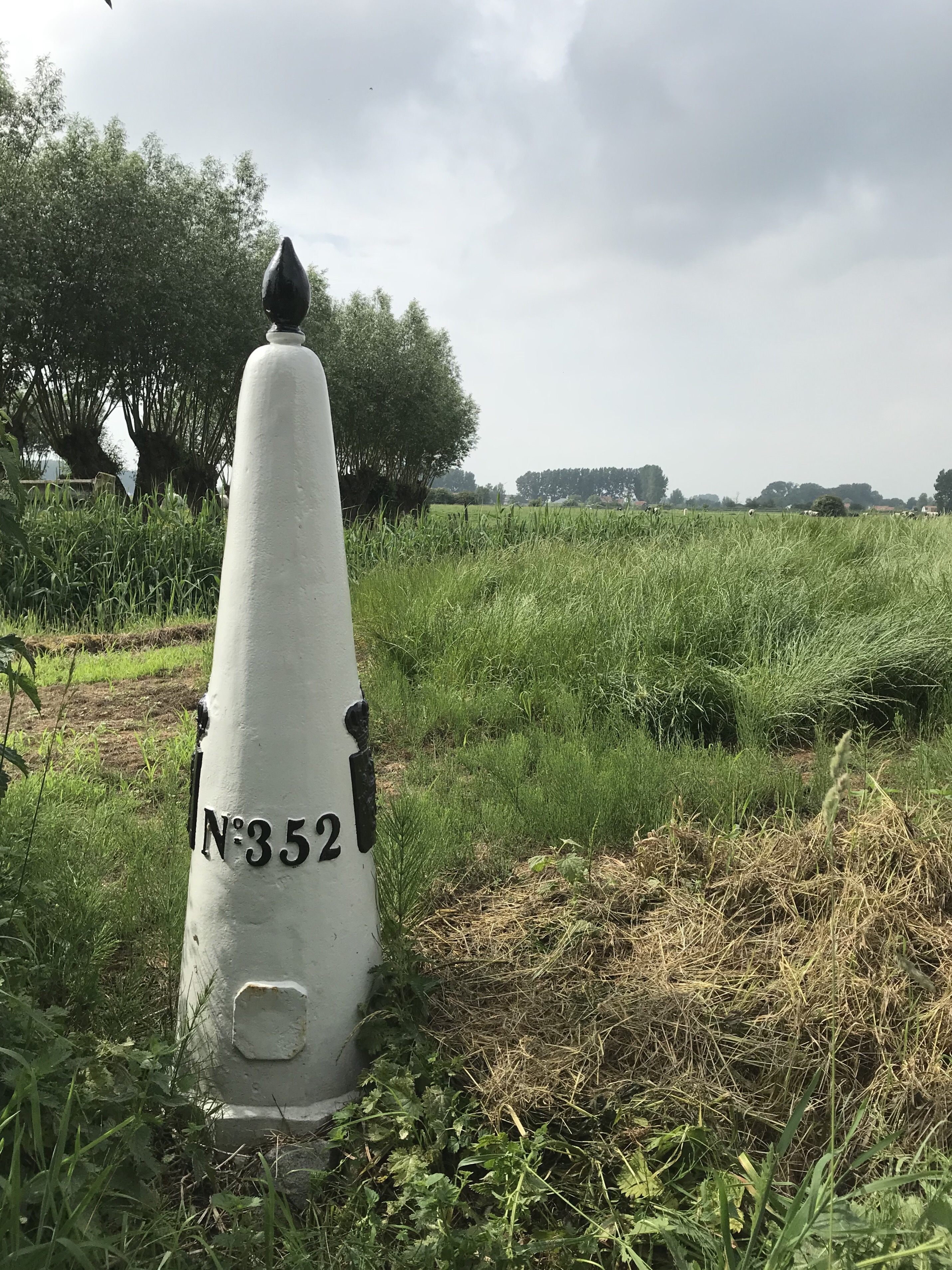 Maldegem (Middelburg), Belgium: boundary marker #352 at the north end of the creek Meulekreek